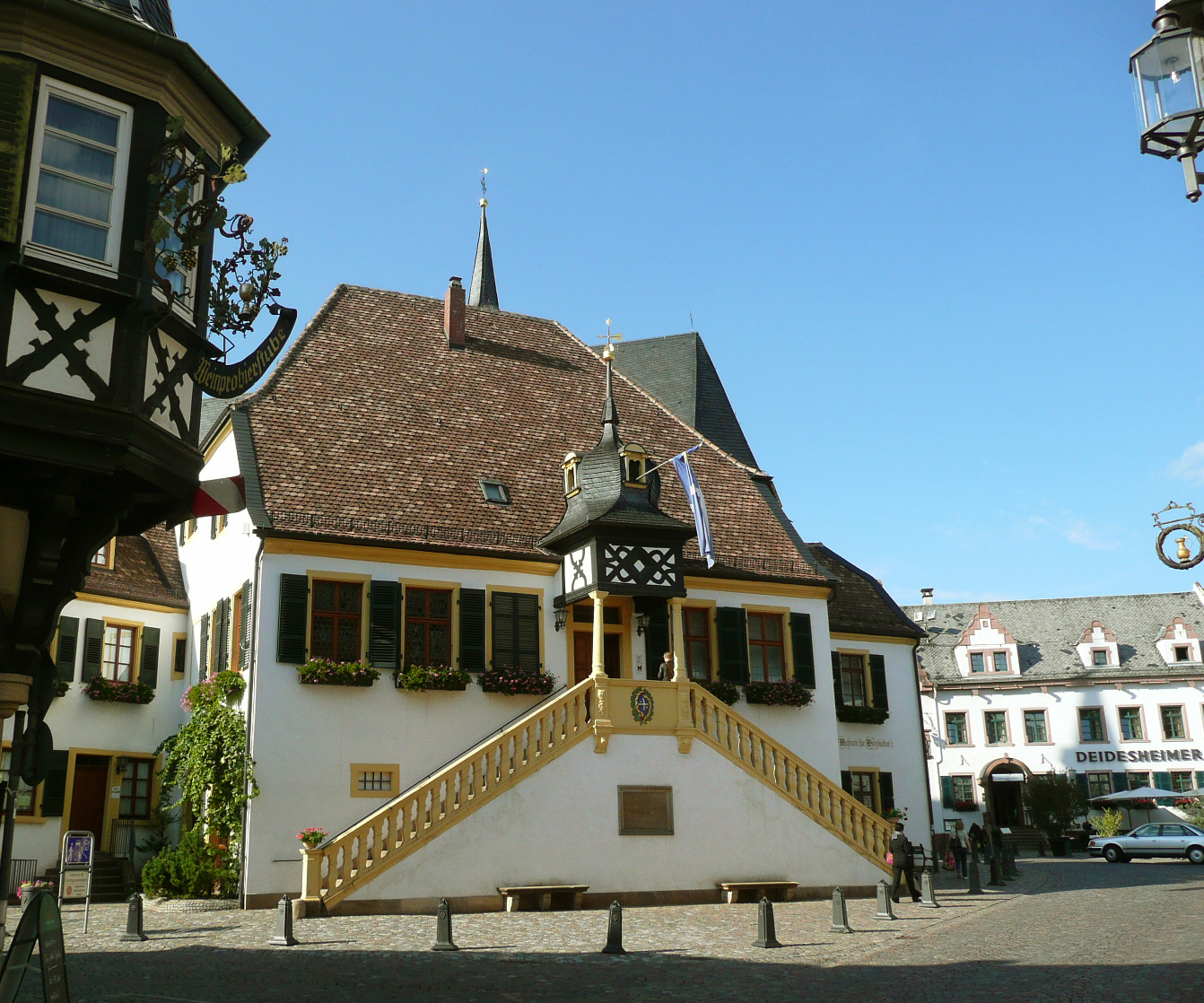 Townhall in Deisdesheim